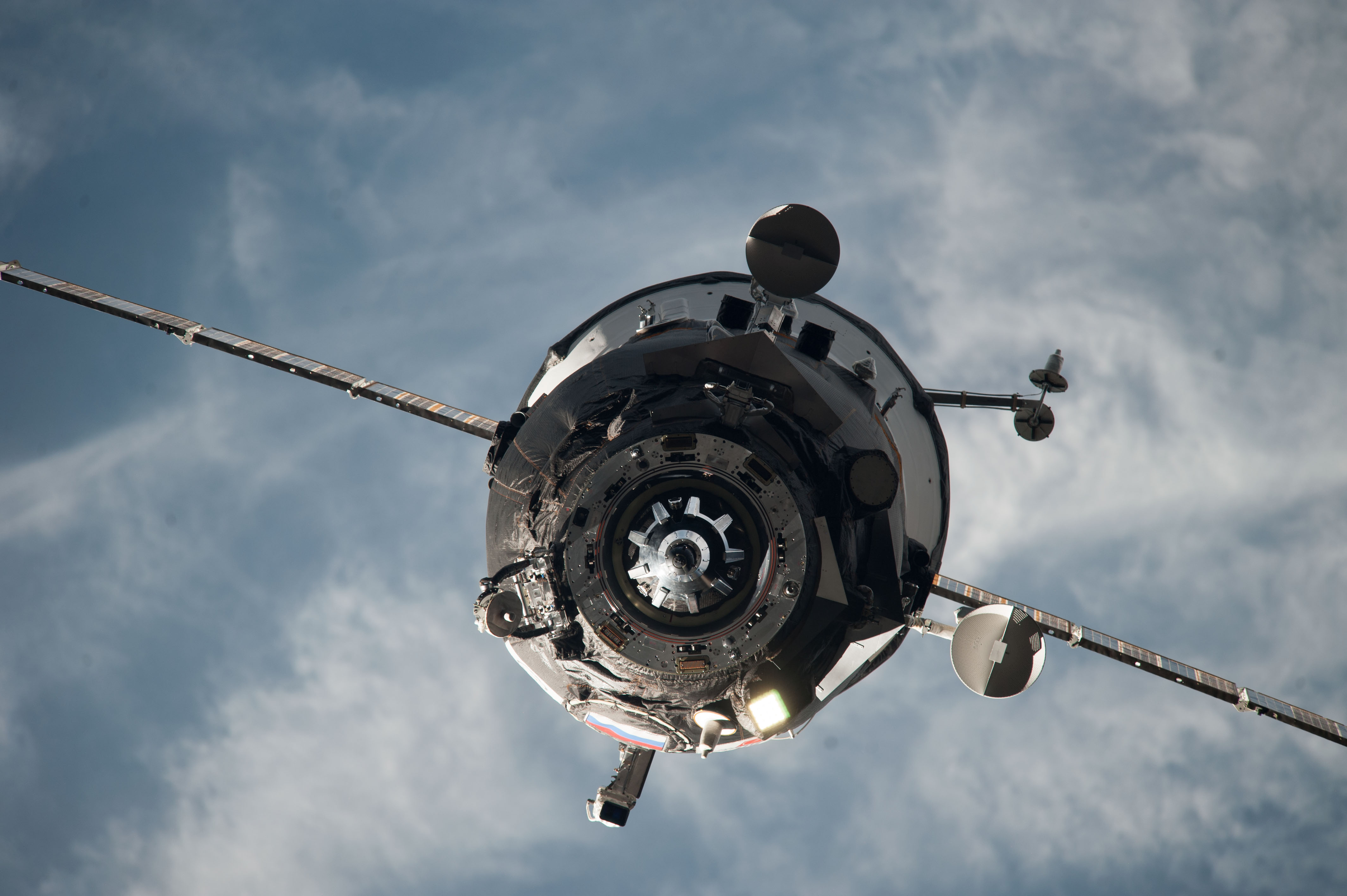 An unpiloted ISS Progress resupply vehicle approaches the International Space Station, carrying 2.8 tons of food, fuel and supplies for the Expedition 38 crew members. The Progress 54 spacecraft launched from the Baikonur Cosmodrome in Kazakhstan at 11:23 a.m. (10:23 p.m. Baikonur time) and completed its four-orbit trek at 5:22 p.m. (EST) when it docked automatically to the station's Pirs docking compartment.